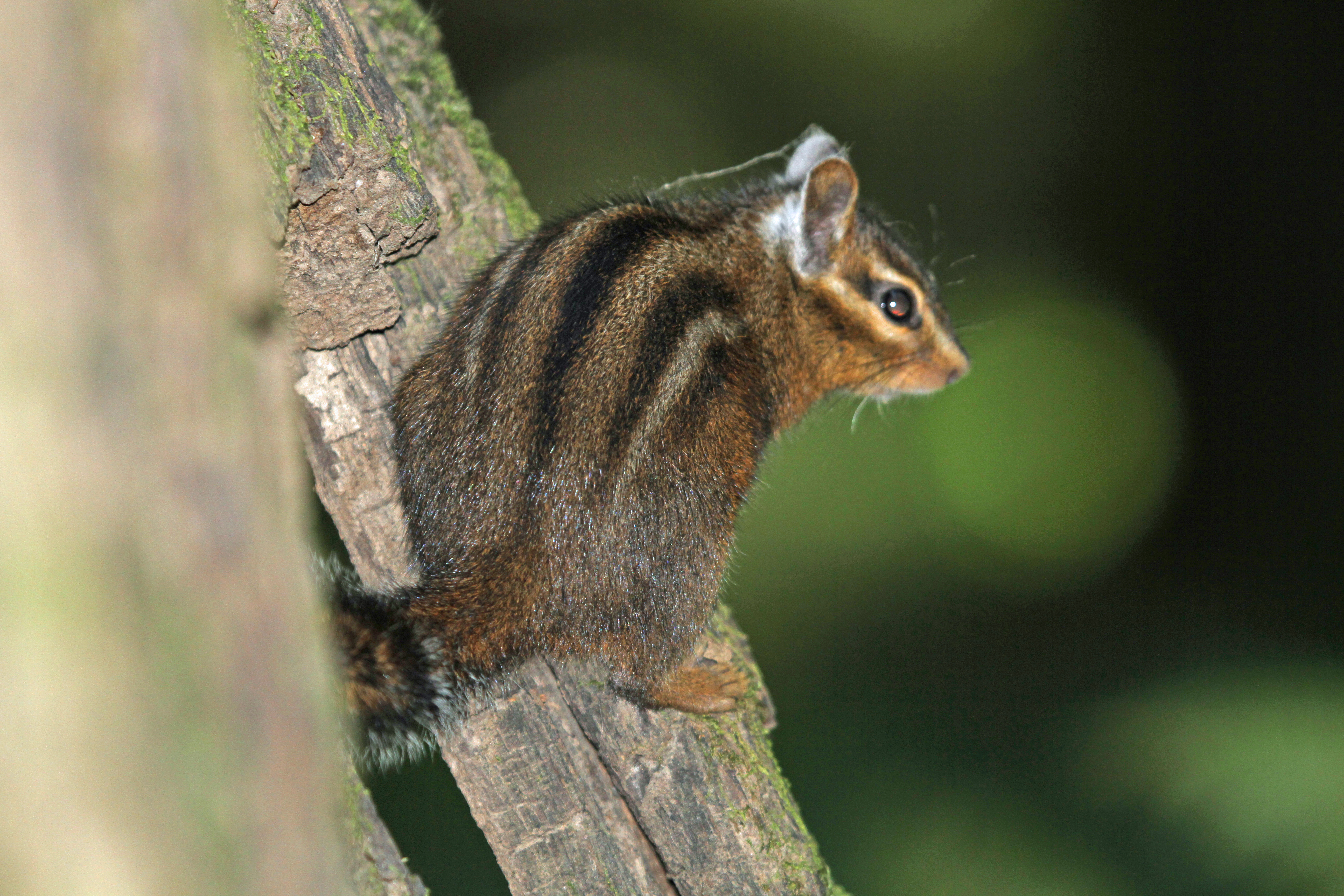 Neotamias senex, Allen's Chipmunk